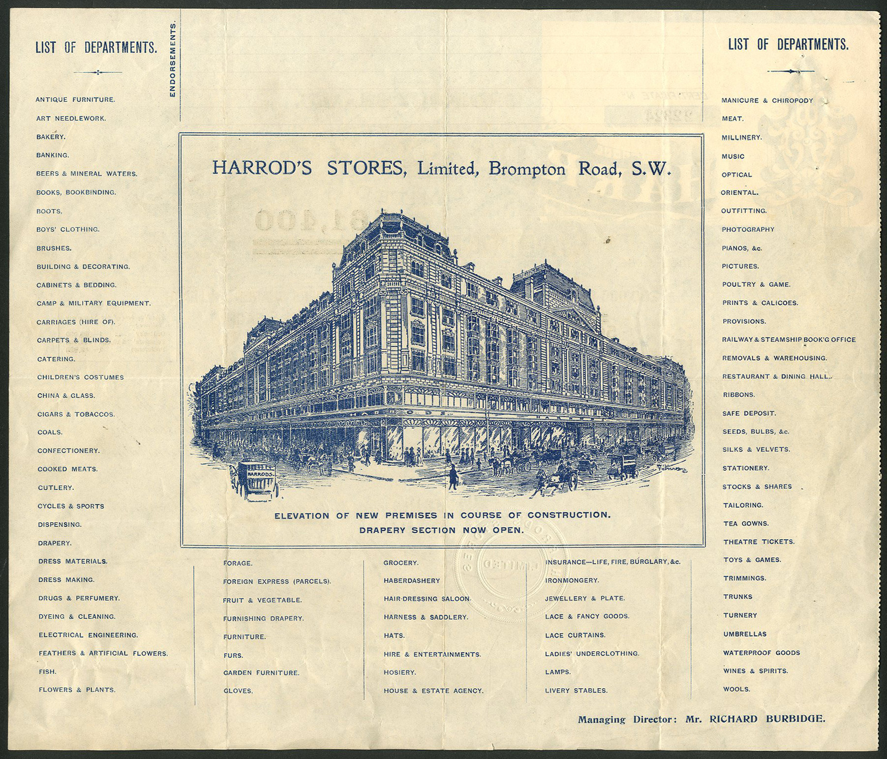 Back site of a share of the Harrod's Stores Ltd., issued 7. August 1903